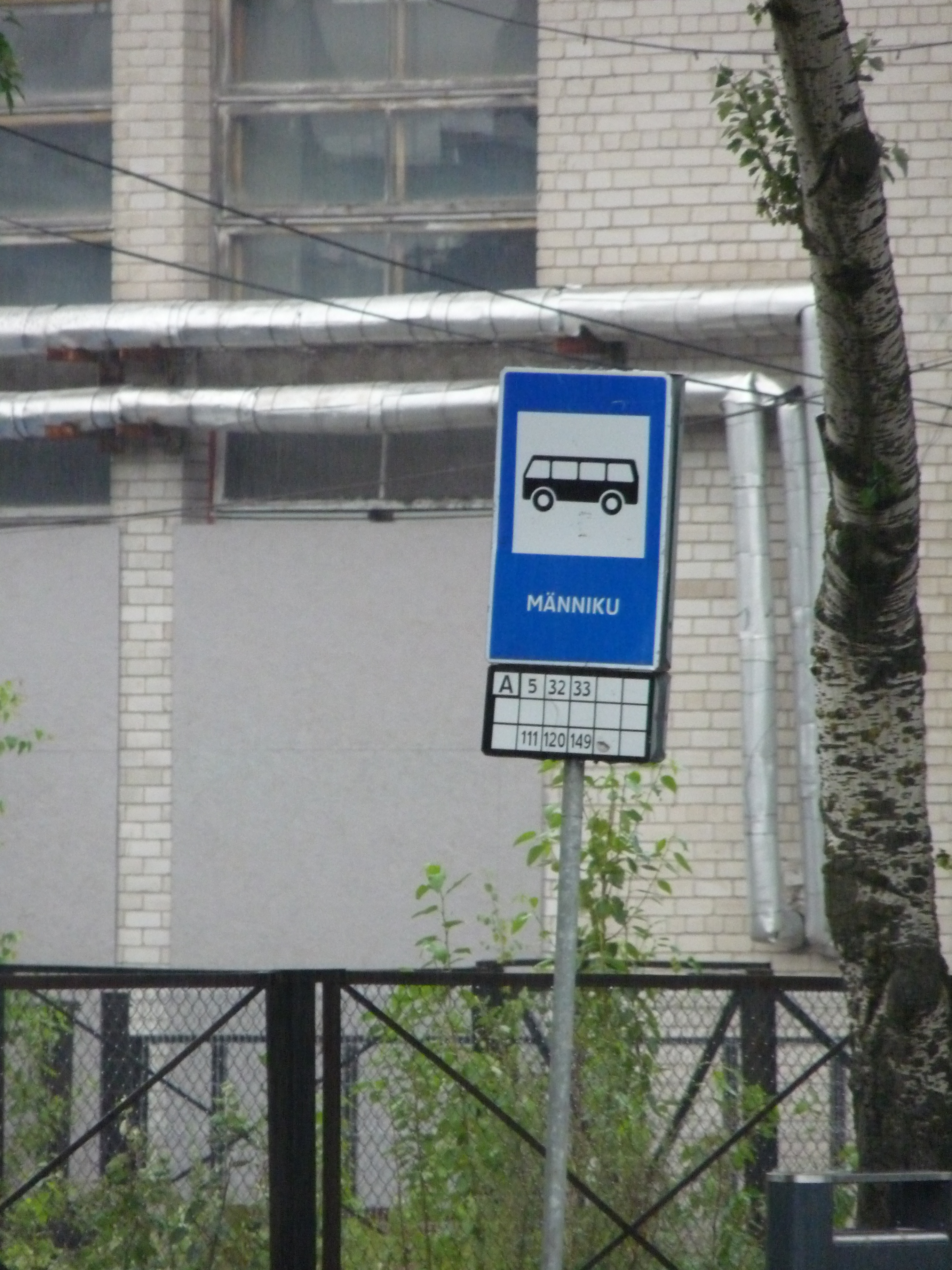 Bus stop in Männiku